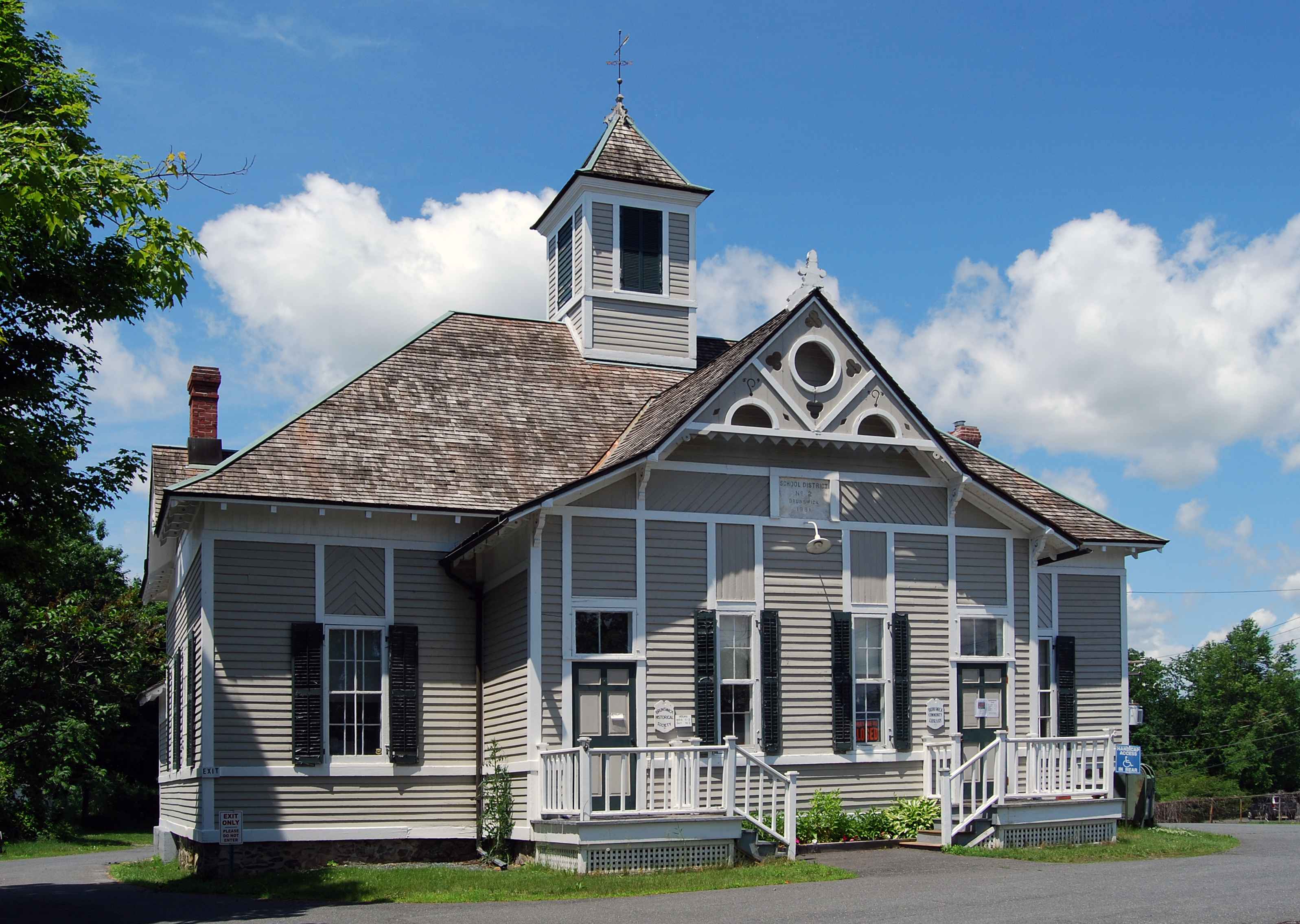 District #2 Schoolhouse (the Garfield School) in Brunswick, New York, United States. The building was added to the National Register of Historic Places in 1988; until 1986, it was owned by Brittonkill Central School District, when it was transferred to the Town of Brunswick.